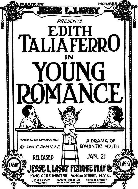 Advertisement for the American drama film Young Romance (1915), on page 31 of the January 16, 1915 Variety.